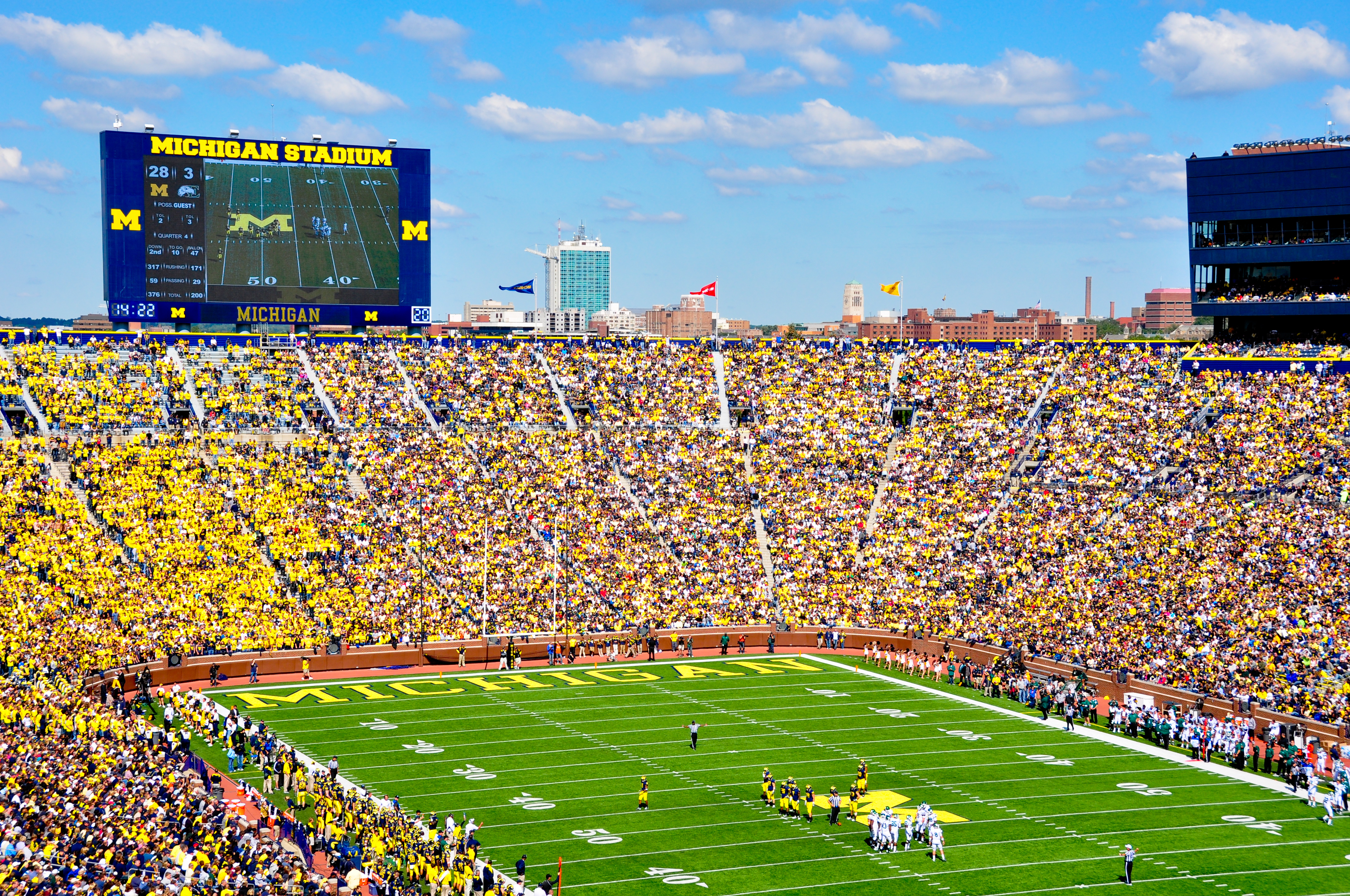 Michigan Stadium with Ann Arbor in the Background, September 17, 2011